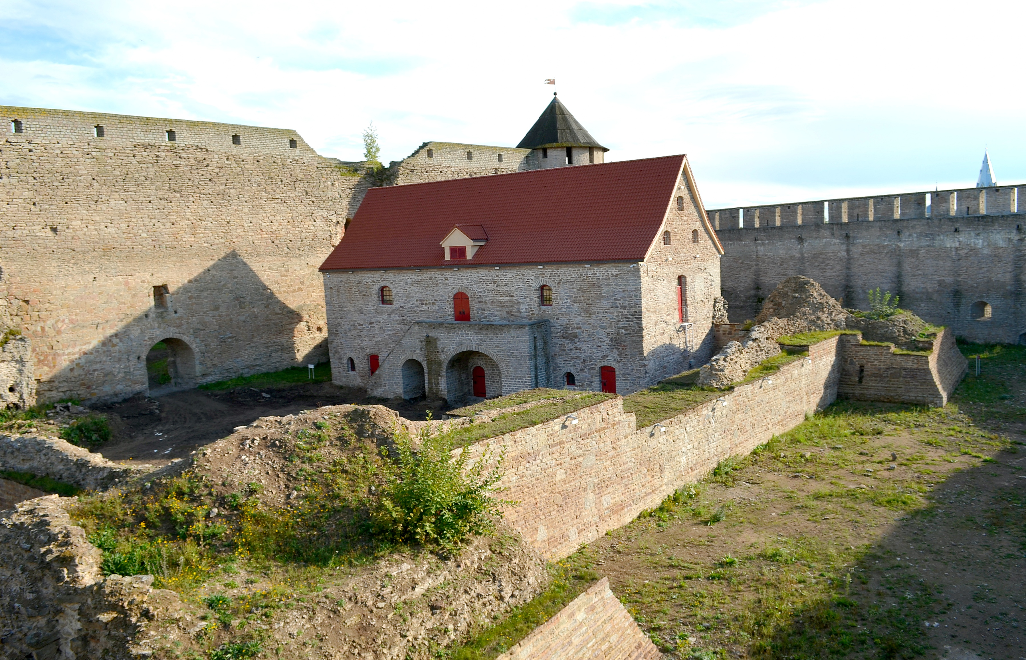 Castle. The Maiden Mountain, Ivangorod, Kingisepp district, Leningradskaya Oblast